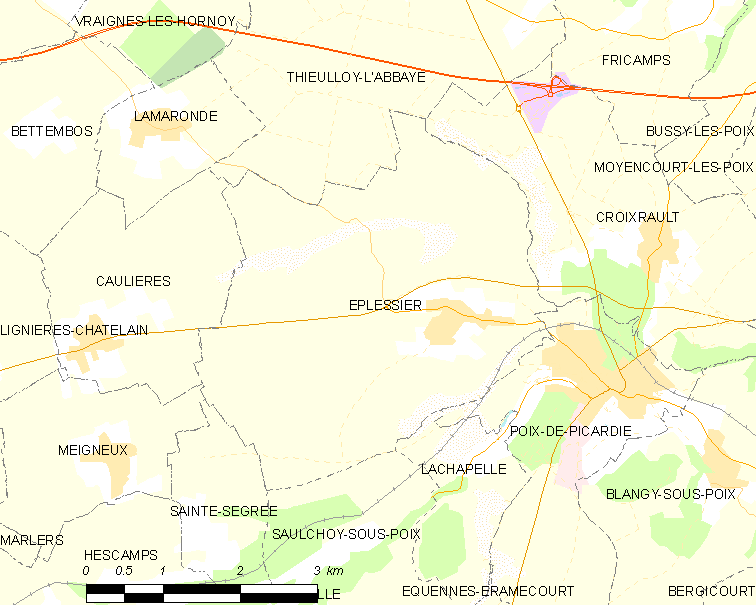 Map of French municipality Éplessier